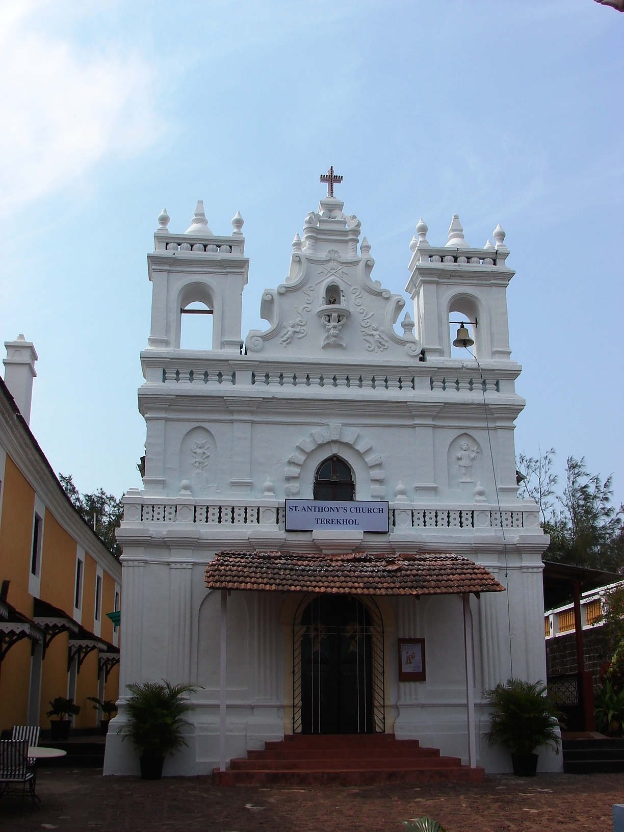 Terekhol Charch